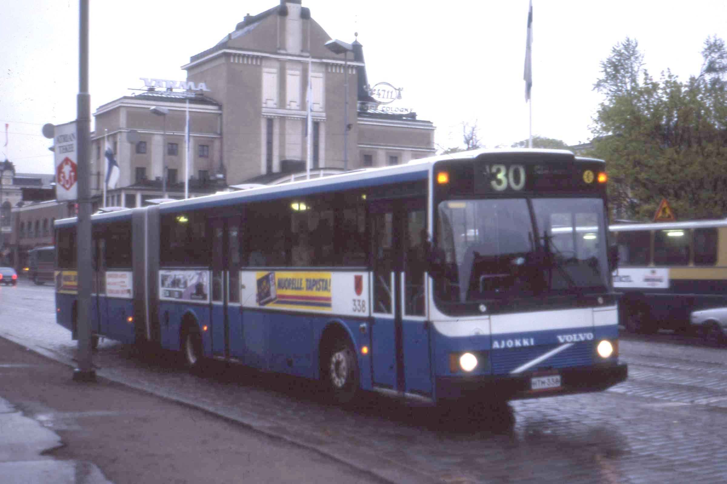 Ajokki City N articulated bus (#338) with Volvo B10MA-55 chassis in Tampere, Finland, in 1987. Built 1985.